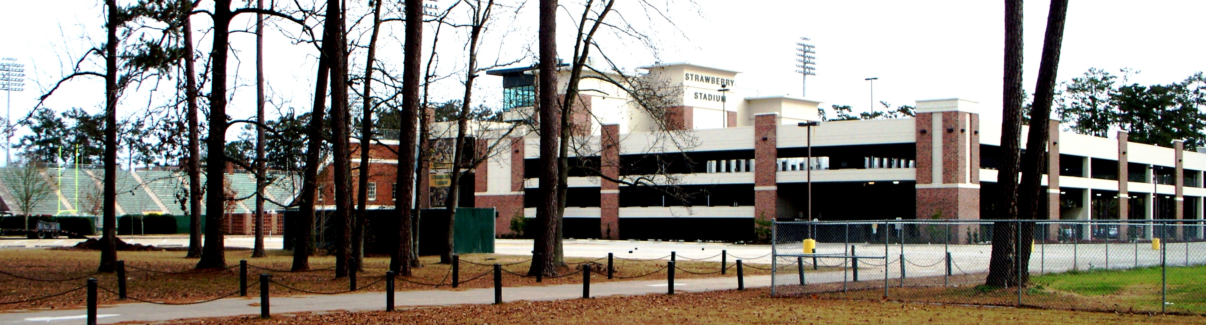 A parking garage fitted to Strawberry Stadium. Initiated by students and paid for by student fees and parking permits.